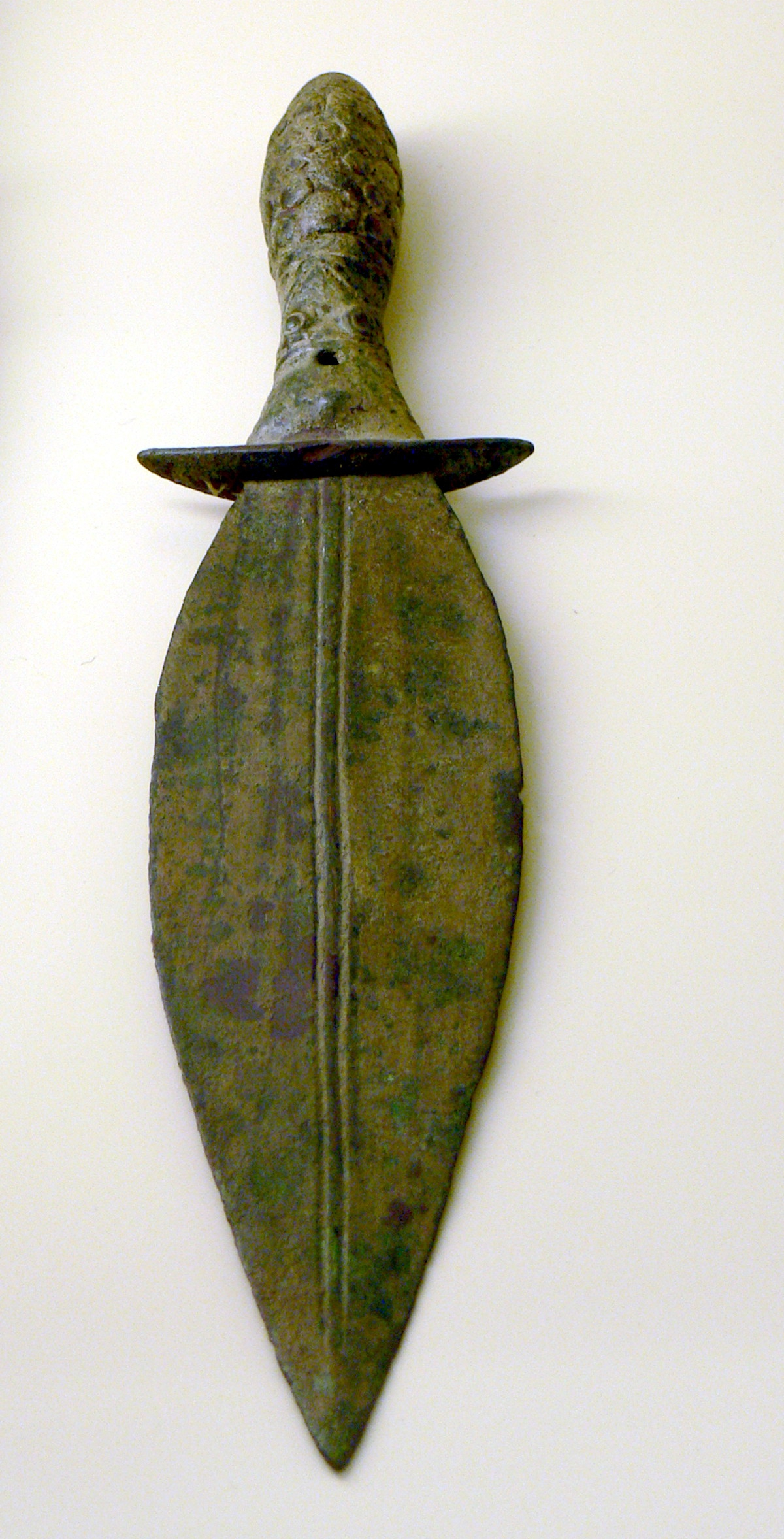 Museum of Ancient Near East ( Berlin ). Luristan bronze dagger ( 1st millenium BC ).